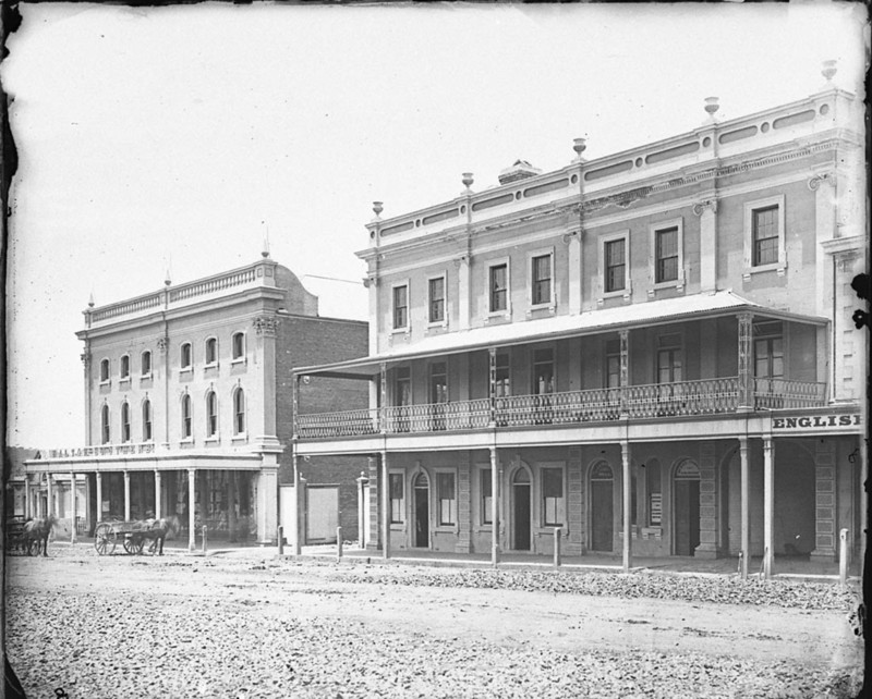 Dalton Bros, Post Office, Coroner's & County Clerks' Offices, Summer Street, centre, south side, Orange.